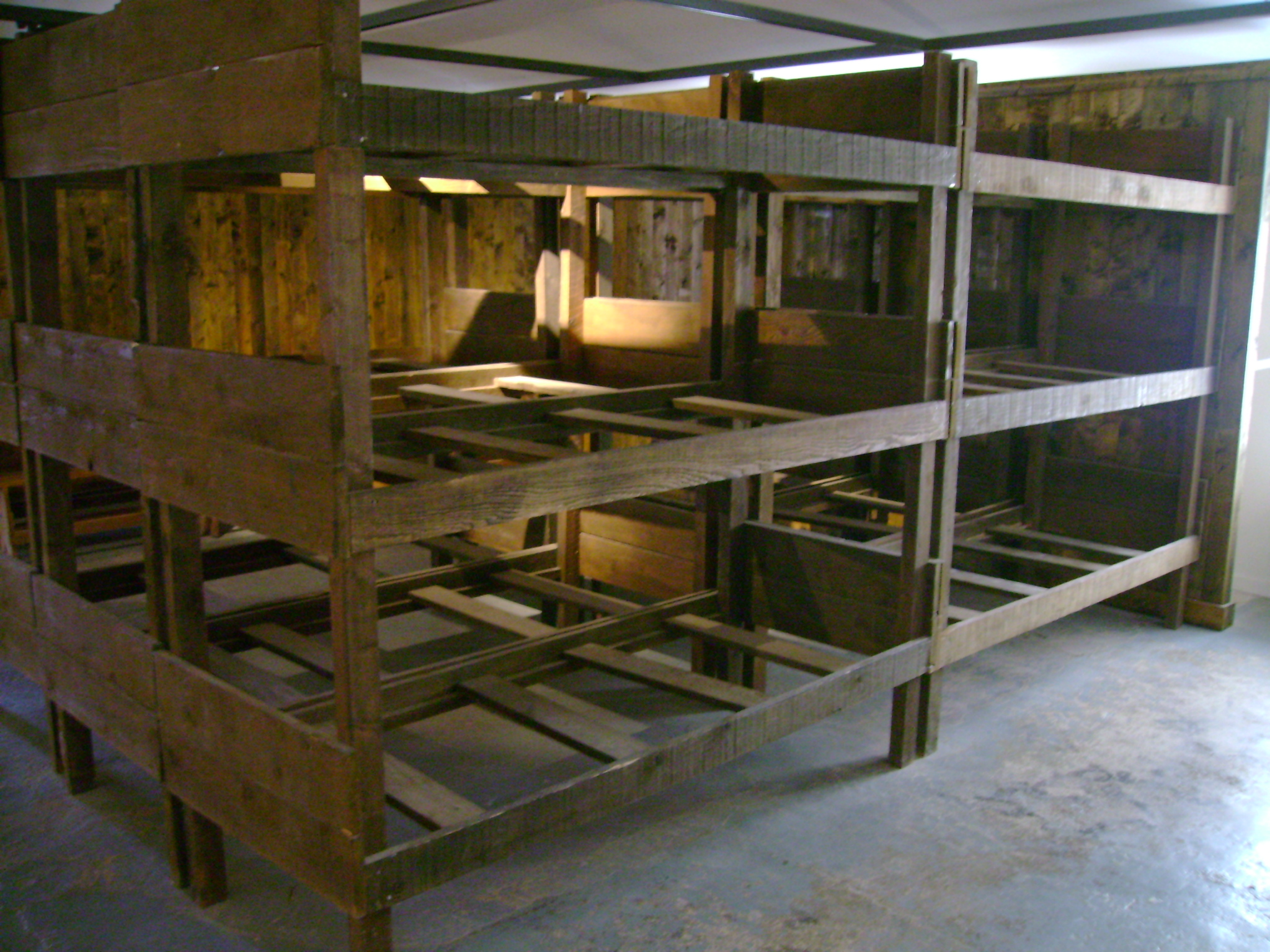 The Nazi concentration camp Natzweiler-Struthof in Alsace, modern France